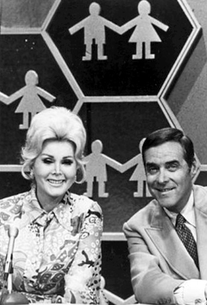 Publicity photo of host Jack Barry with guest Zsa Zsa Gabor.